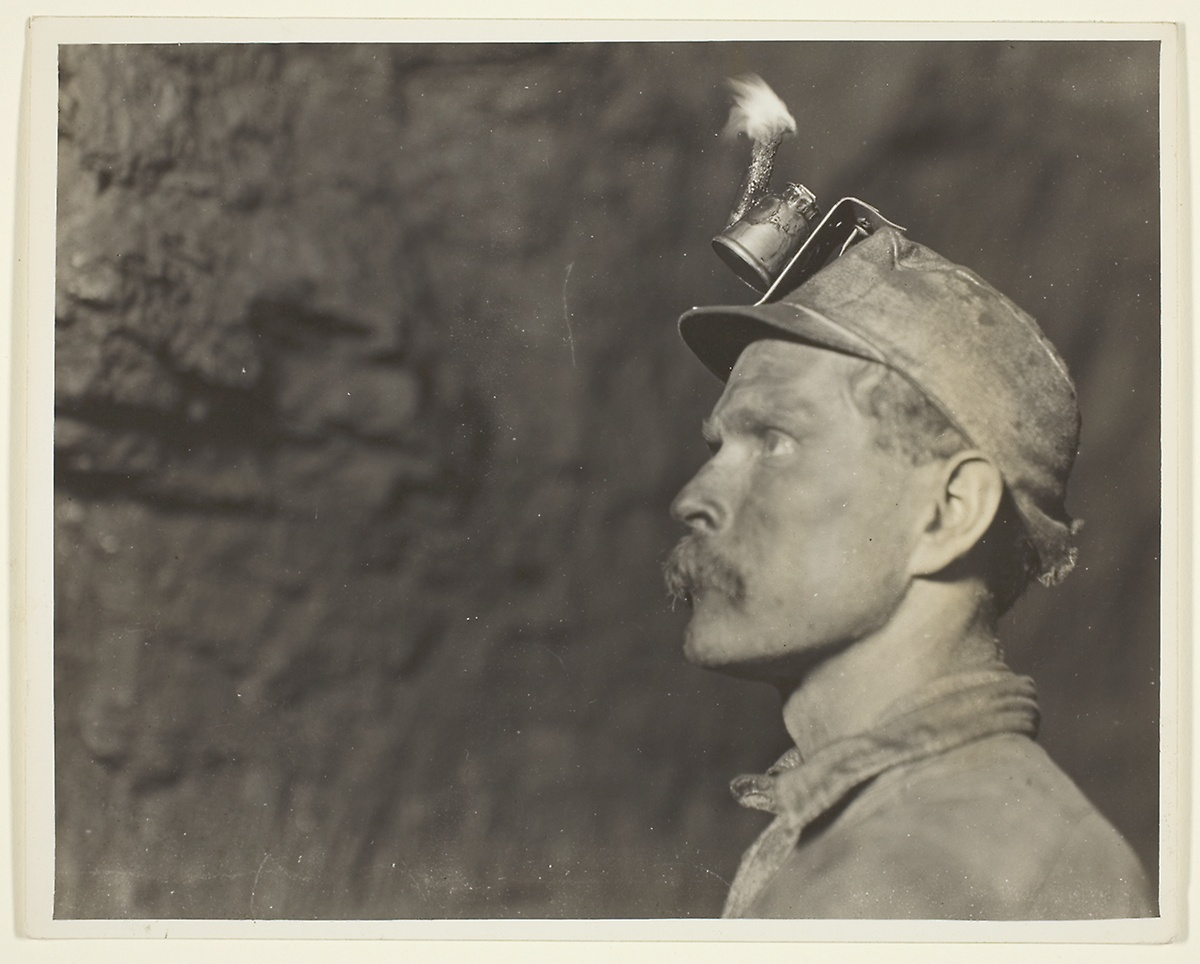 Photo by Lewis Hine